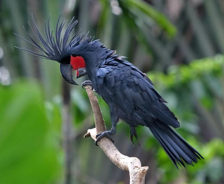 Palm Cockatoo - Jurong BirdPark, Singapore